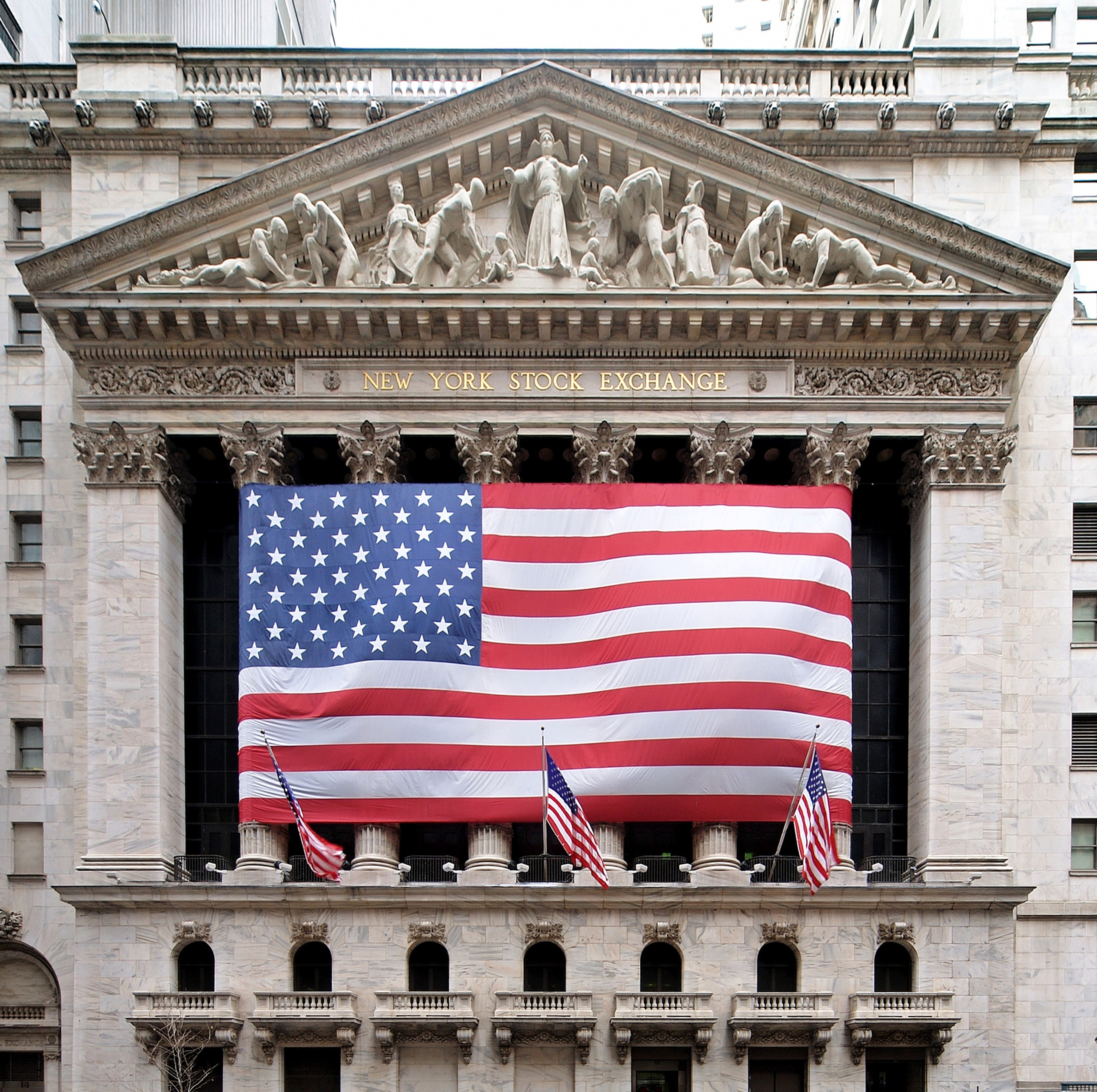 New York Stock Exchange on Wall Street in New York, New York, United States.